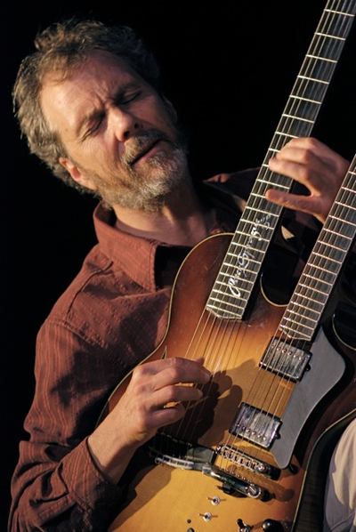 Peter Sprague playing twin-neck guitar